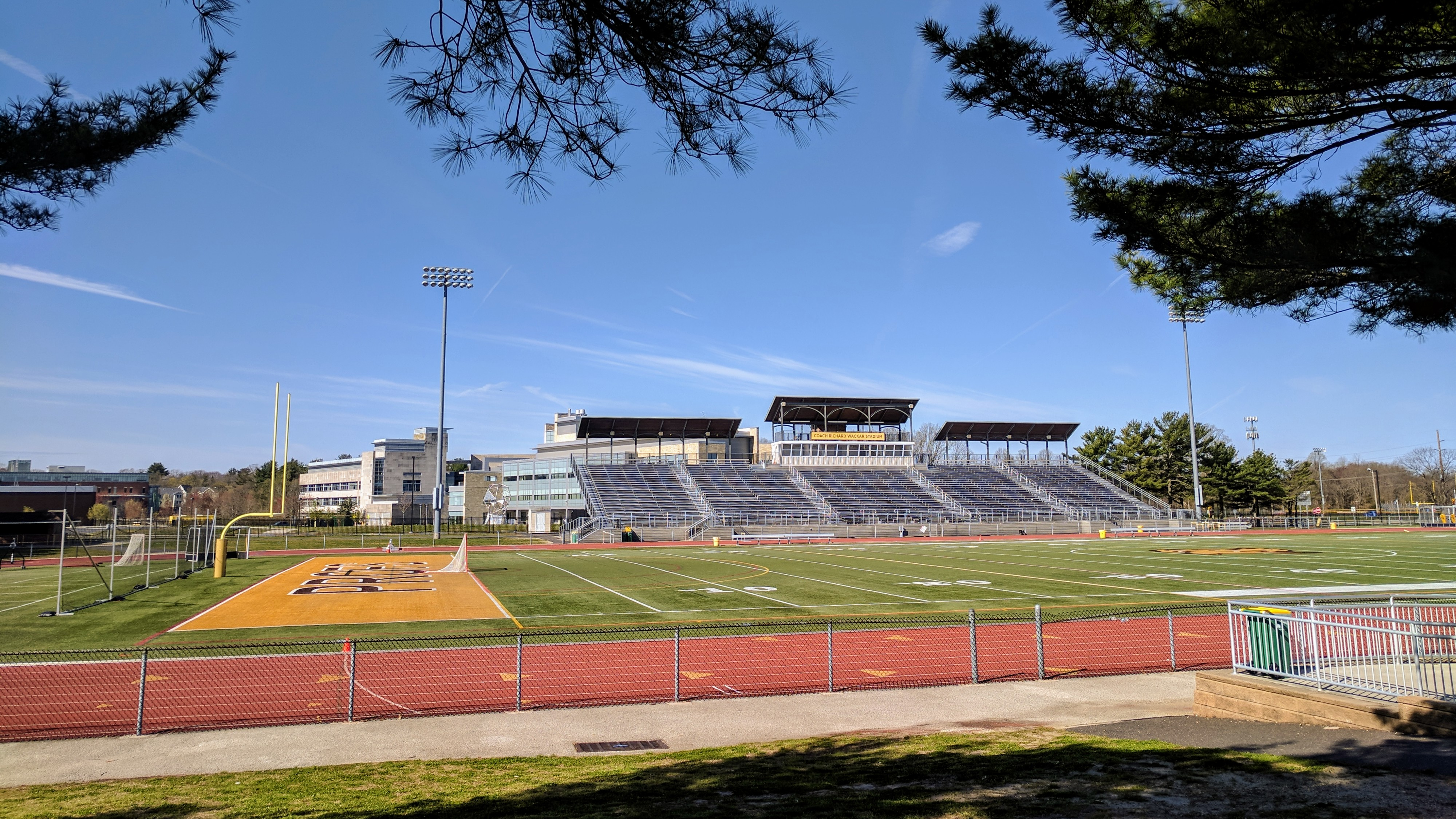 Looking at the field and track of Rowan University's Coach Richard Wackar Stadium.